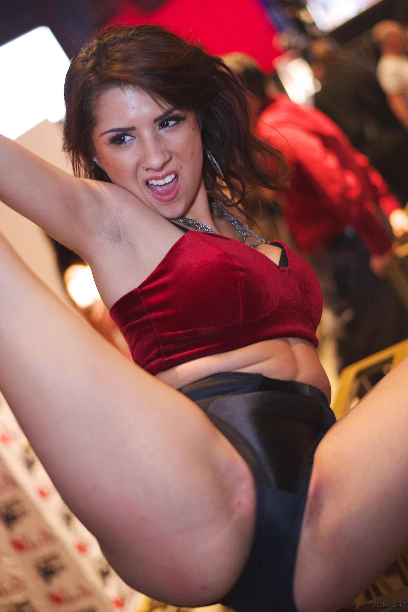 2014 AVN Adult Entertainment Expo AEE at Hard Rock Hotel - Las Vegas. 2014 © GEC. Video footage